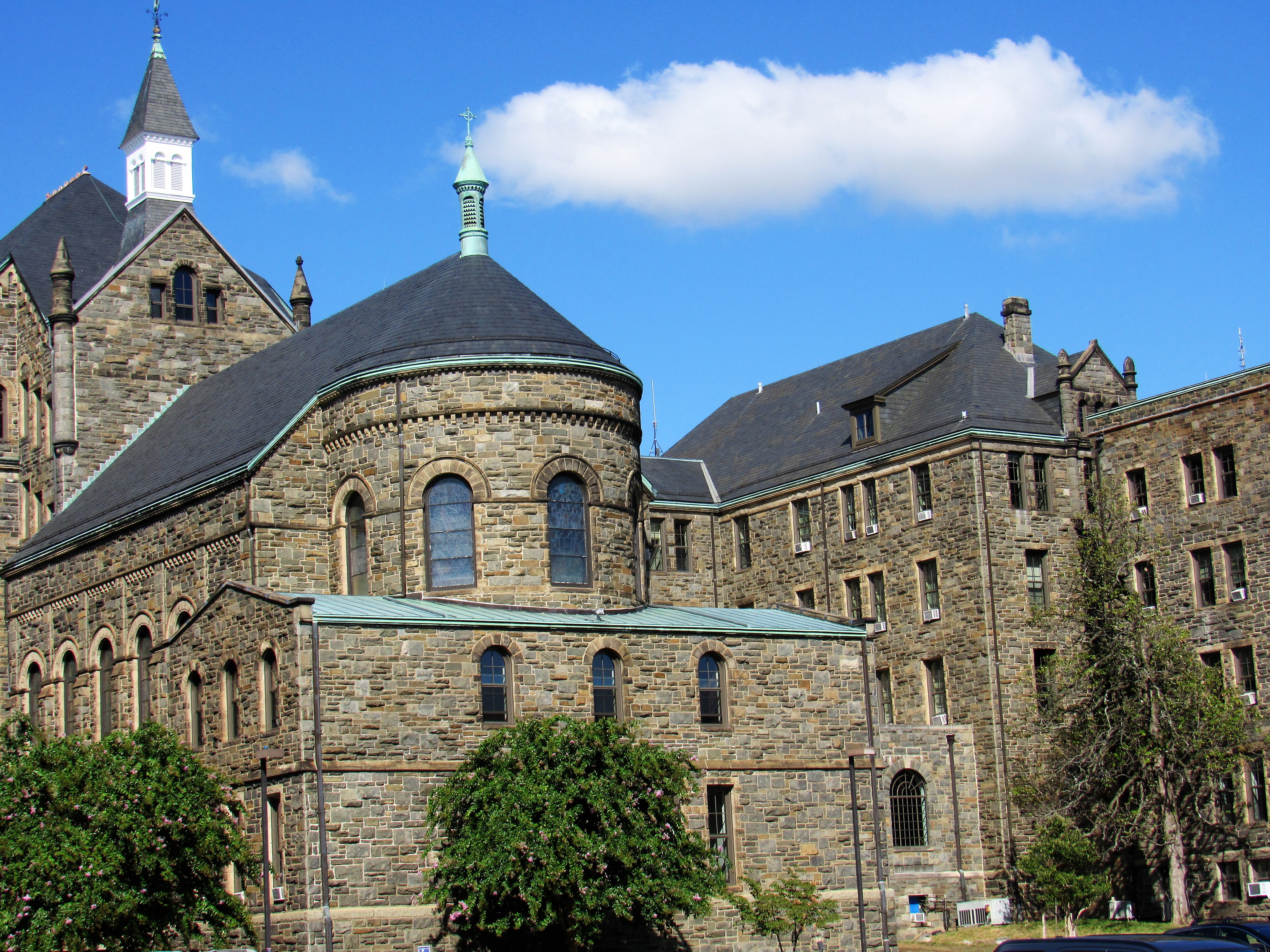 The rear elevation of Caldwell Hall showing the exterior of the chapel. The building is located on the campus of the Catholic University of America in Washington, D.C.